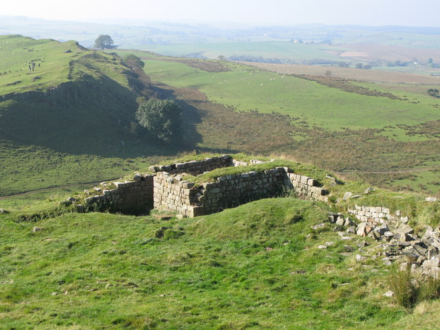 Turret 44b (2) Looking west across the country to the north of Walltown Crags.